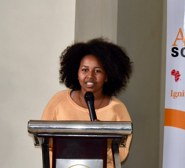 This is Betty giving a talk at Africa Science week in Dec, 2018. Very recent photo!